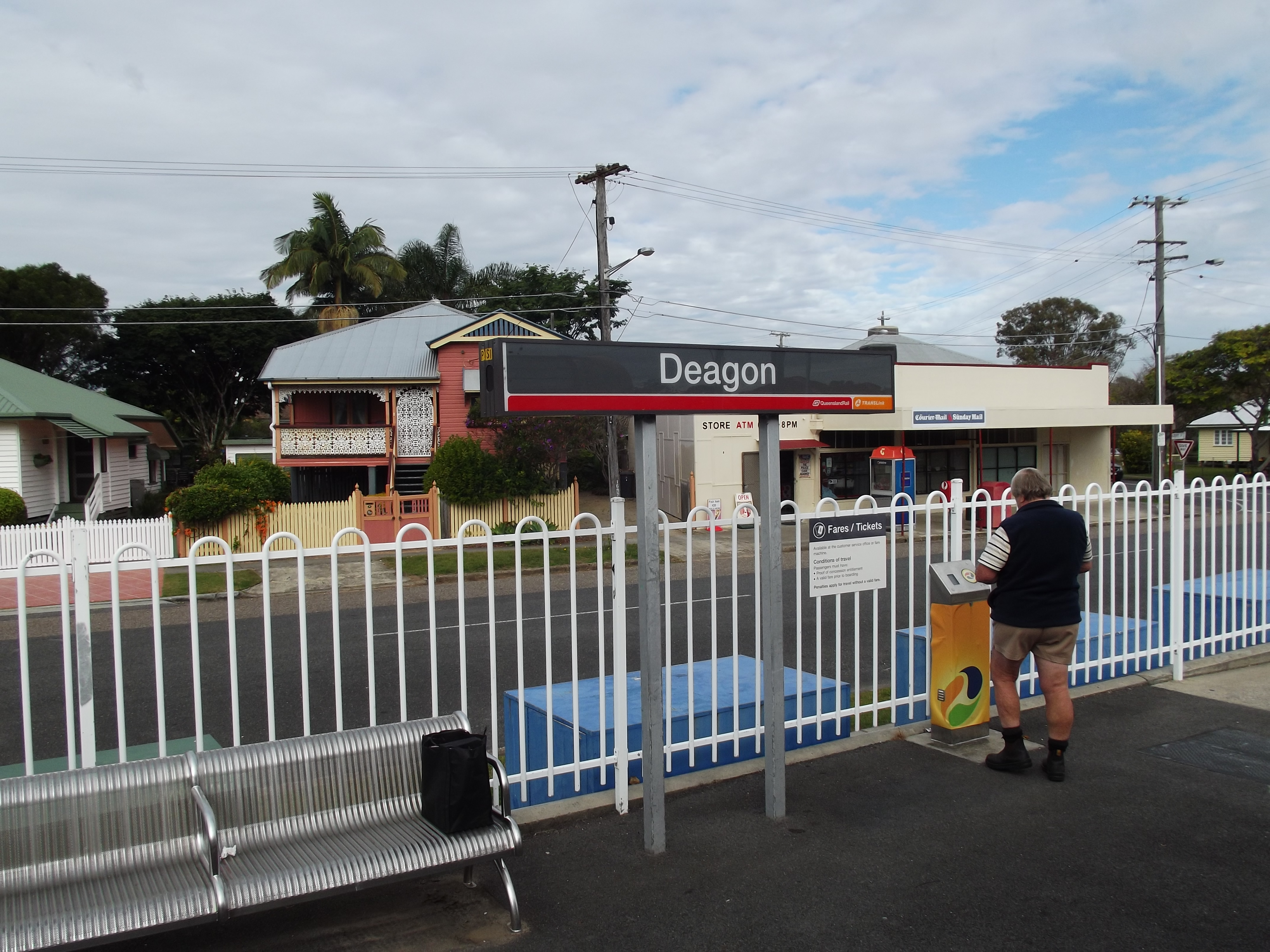 A photo of the Deagon railway station operated by TransLink, located in Brisbane, Queensland.